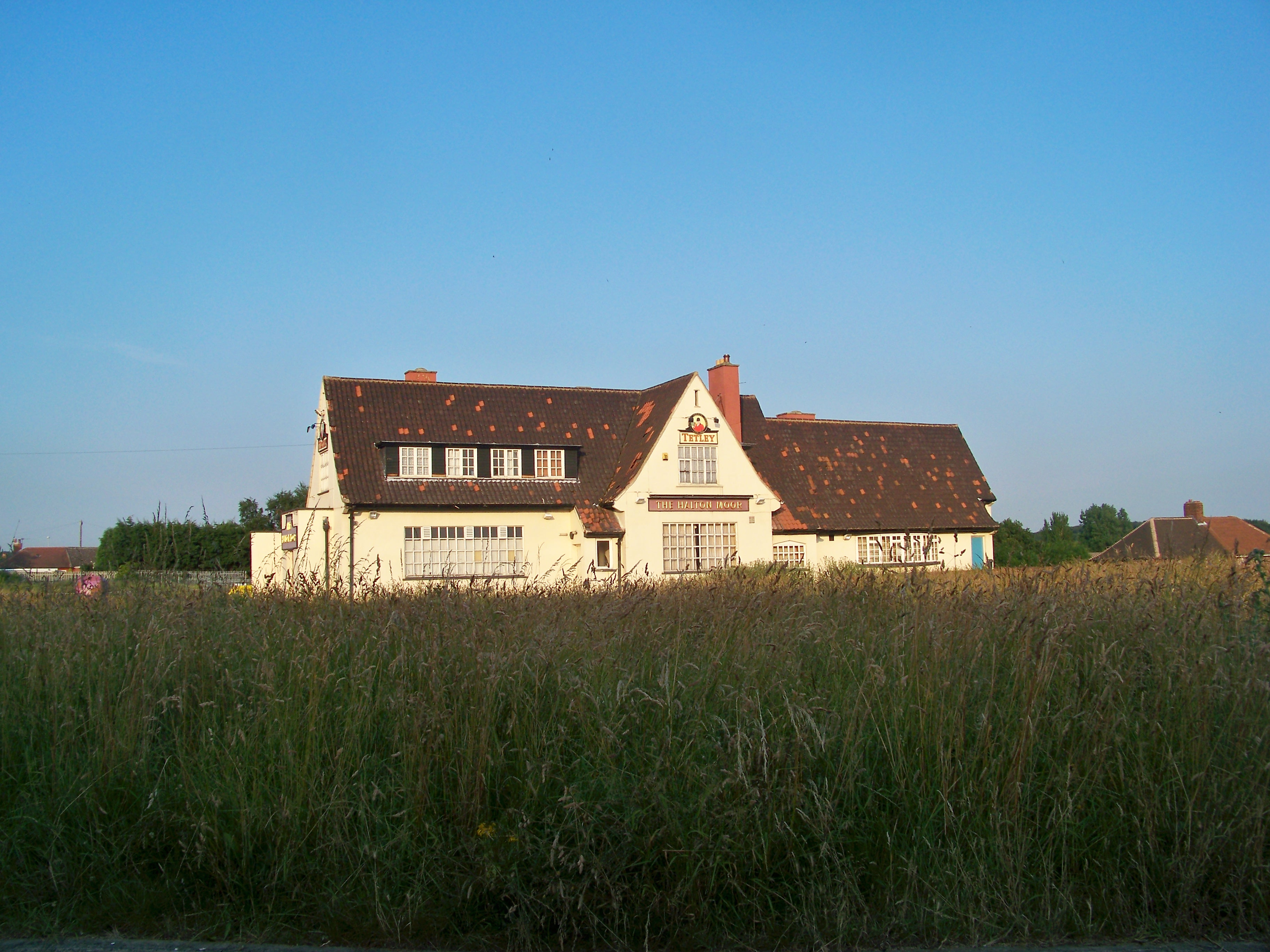 The Halton Moor public house in Halton Moor, Leeds, West Yorkshire, UK. Taken on the evening of the 7th July 2009.